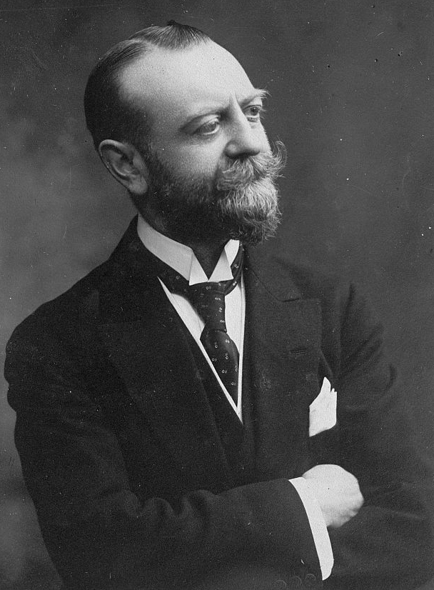 Belgian politician Adolphe Max (1869-1939)